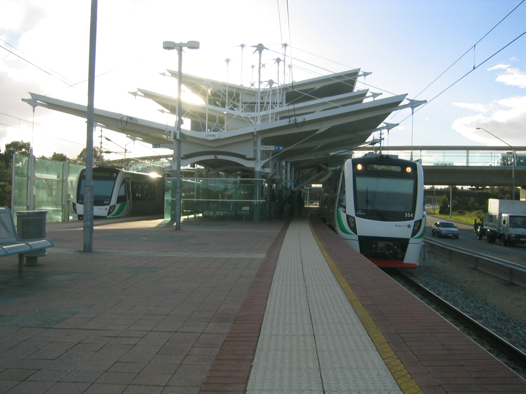 Transperth Stirling Train Station